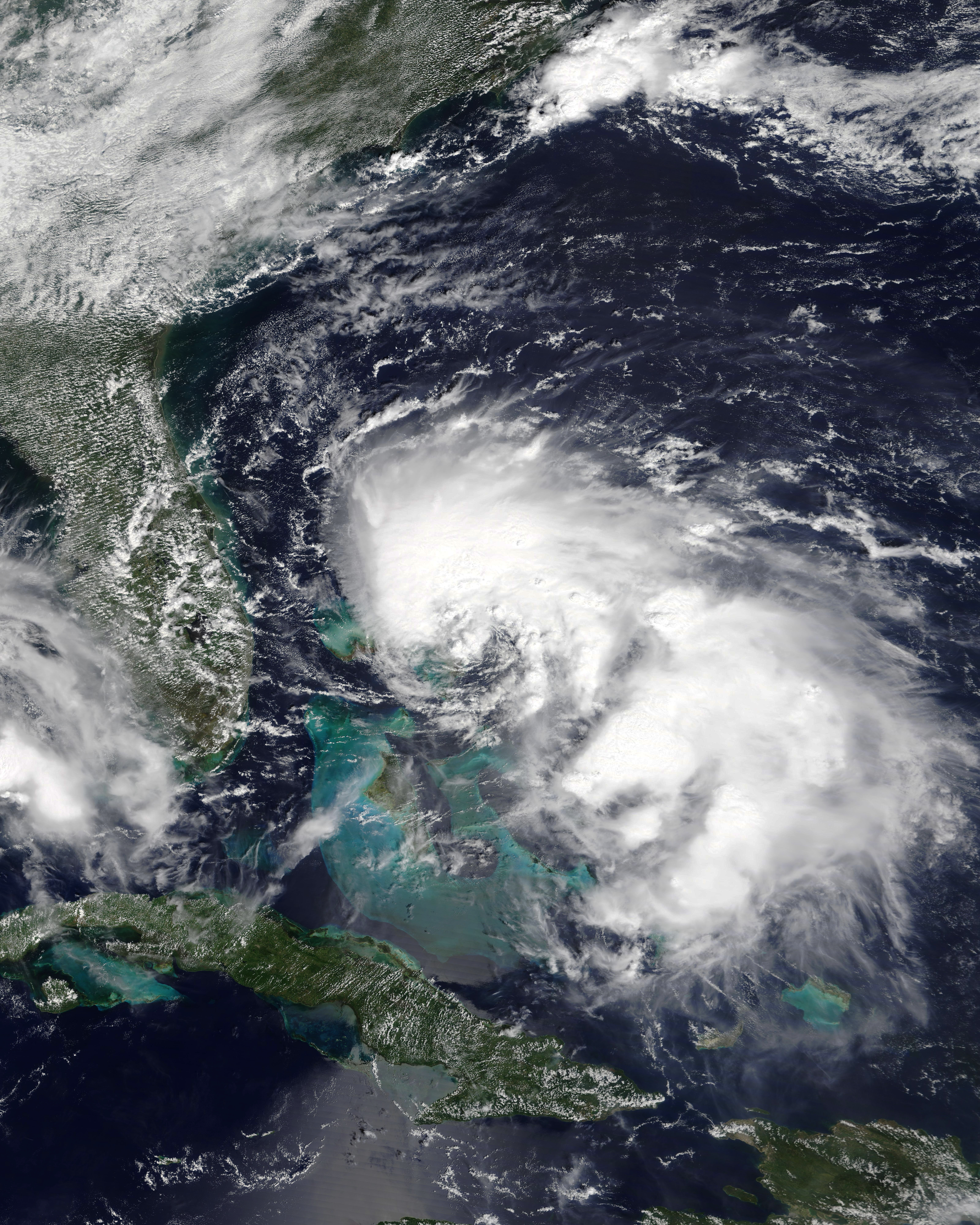 Tropical Storm Humberto on September 14, 2019